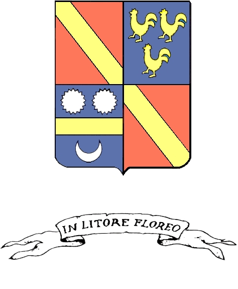 Coat of arms of the city of Mers-les-Bains.